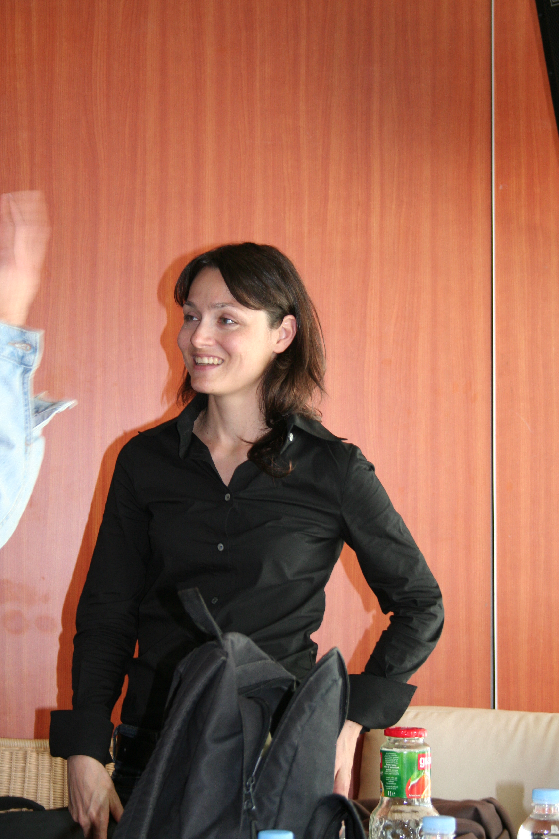 Show-case with Petra Magoni and Ferruccio Spinetti at Fnac de La Défense (Paris, France).